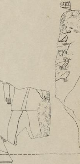 Relief from the mortuary temple of Sahure showing vizier Werbauba